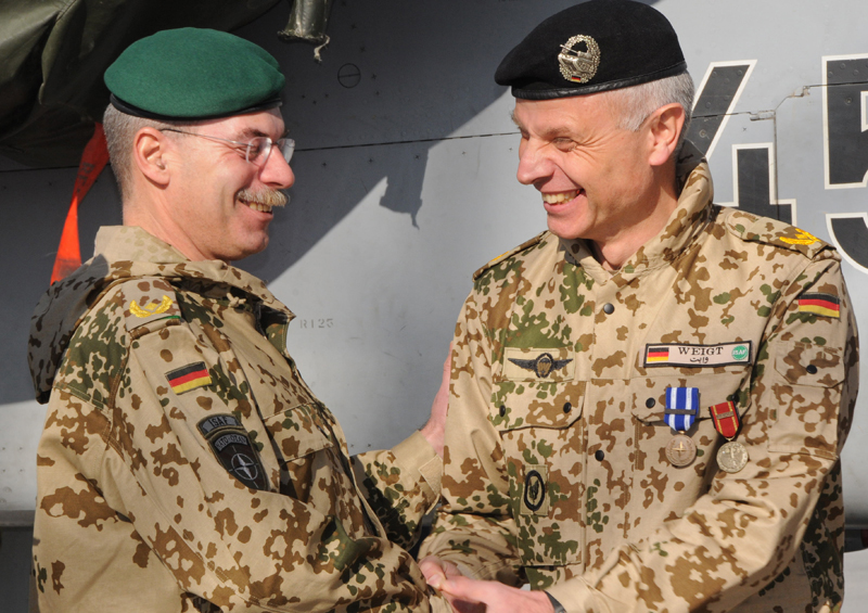 Brig. Gen. Juergen Weigt shakes the hand of Brig. Gen. Joerg Vollmer. Weigt passed command of Regional Command North to Vollmer during a change of command ceremony in Mazar-e-Sharif, Jan. 10.